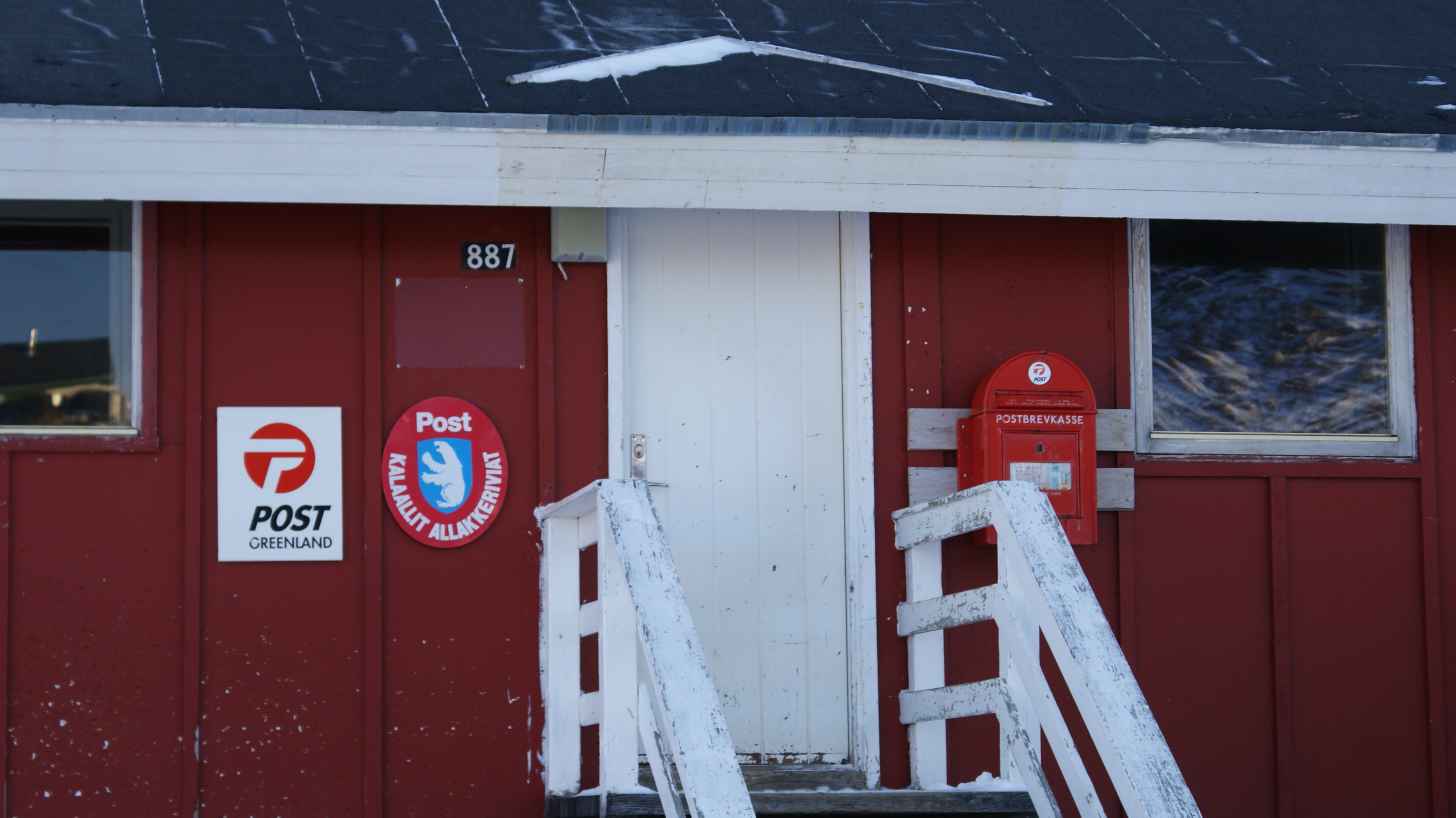 Post Greenland office in a Pilersuisoq all-purpose store in Kulusuk, Greenland.